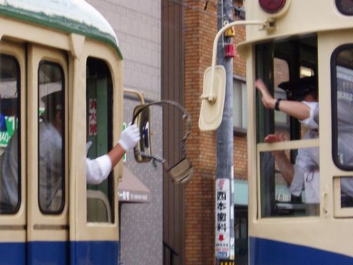 Tablet exchange